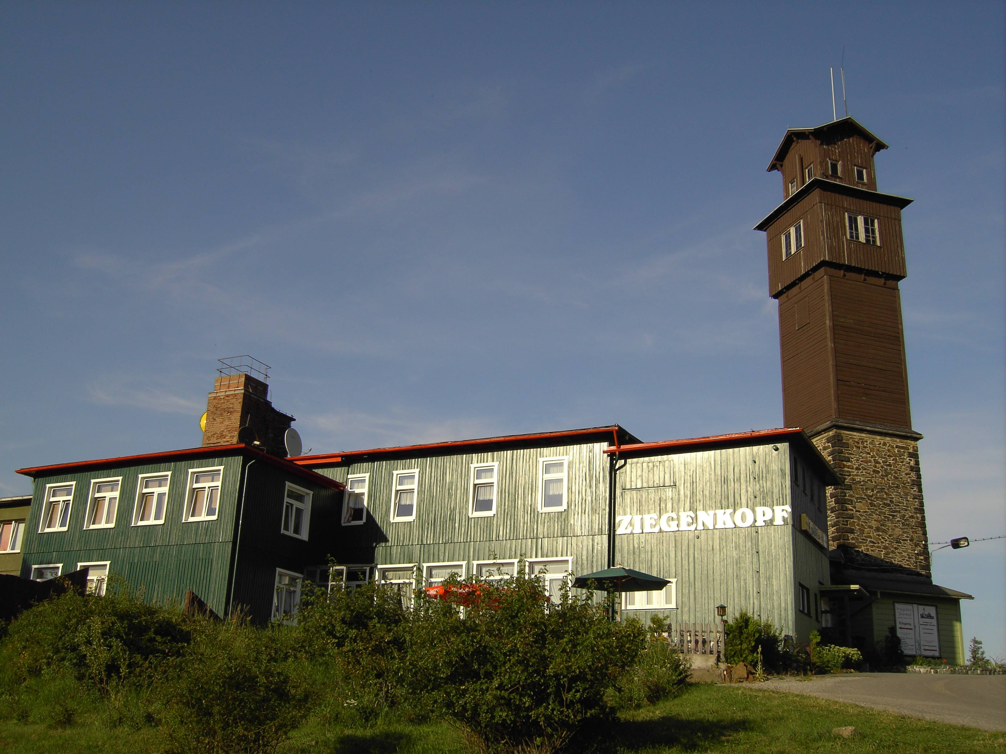 The Ziegenkopf near Blankenburg (Harz) in Germany